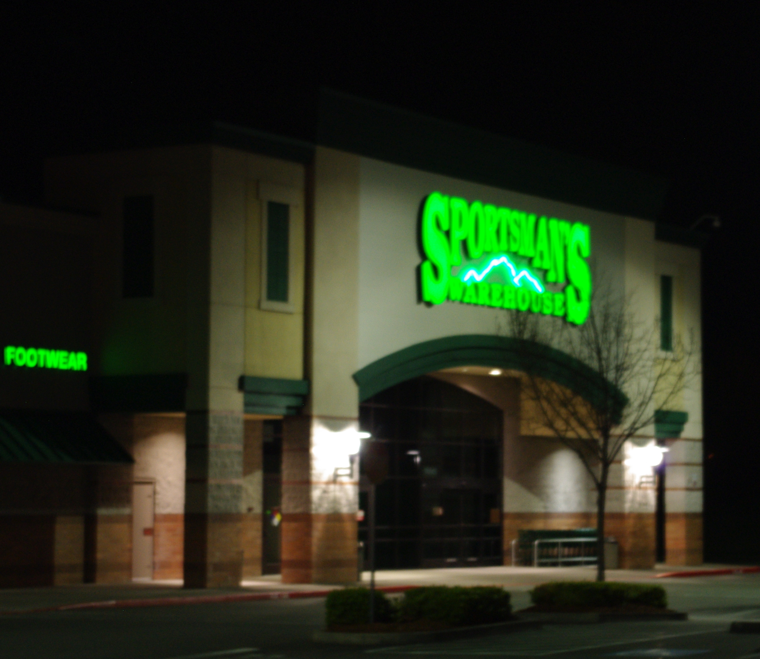 Sportsmans Warehouse at night in Hillsboro, Oregon. Former Bed Bath & Beyond location.